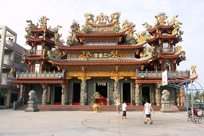 Sanye Temple located at Bao-An,Tainan County,Taiwan.Photo taken by DDM Xiao on 21 November,2004.